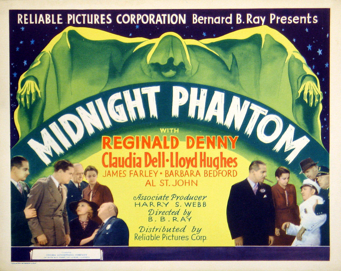 Lobby card for the 1935 film Midnight Phantom. There are no copyright marks on the card. At bottom left is Created by Cinema Advertising Company on North Main Street, Los Angeles, California and Country of origin USA.